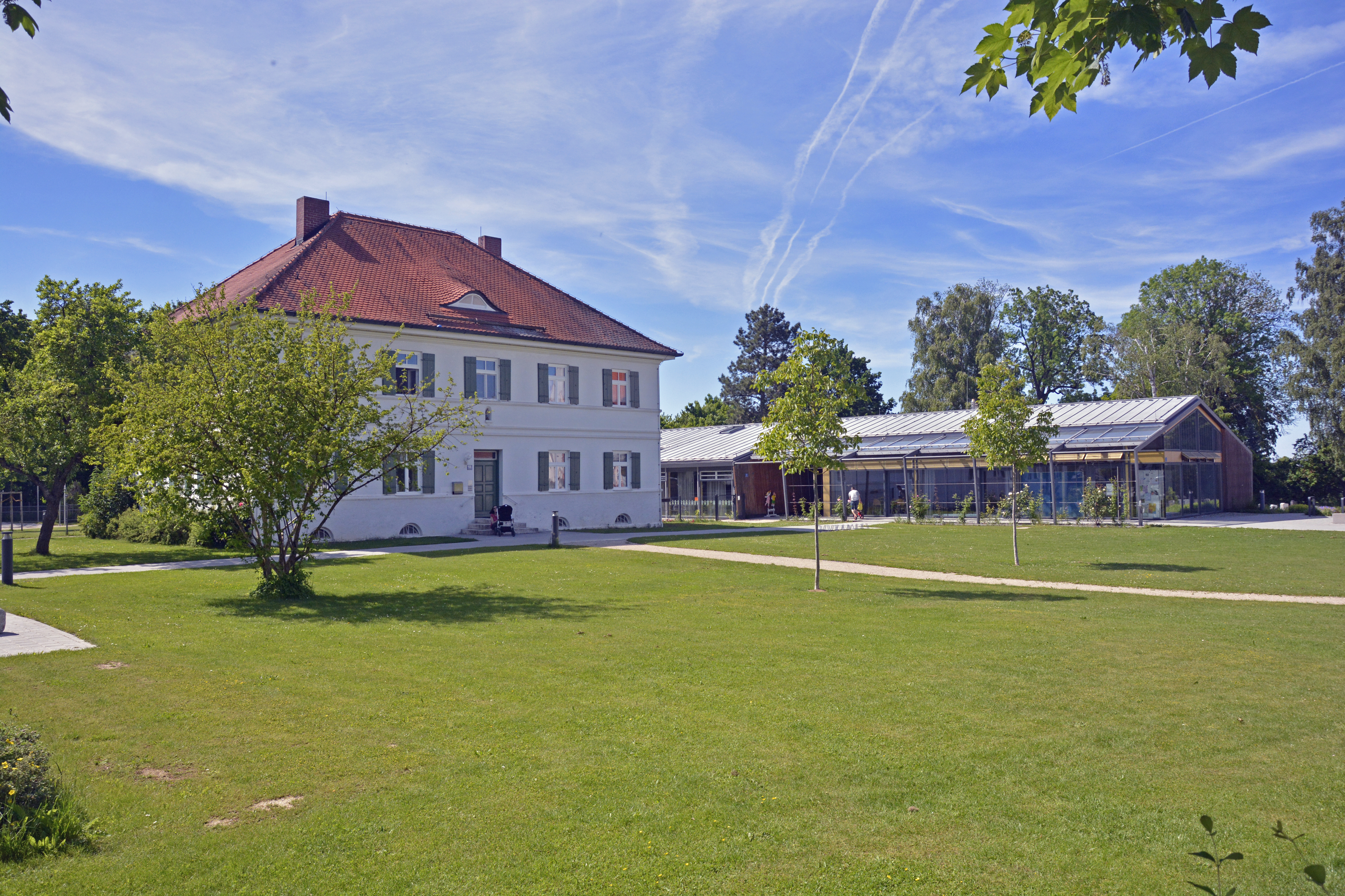 Rectory Vierkirchen (Upper Bavaria) and Kindergarten / nursery school St. Jakobus